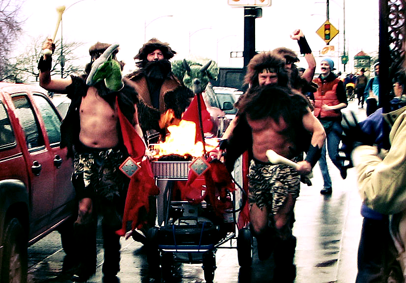 Cavemen participate in the 2008 Portland Urban Iditarod